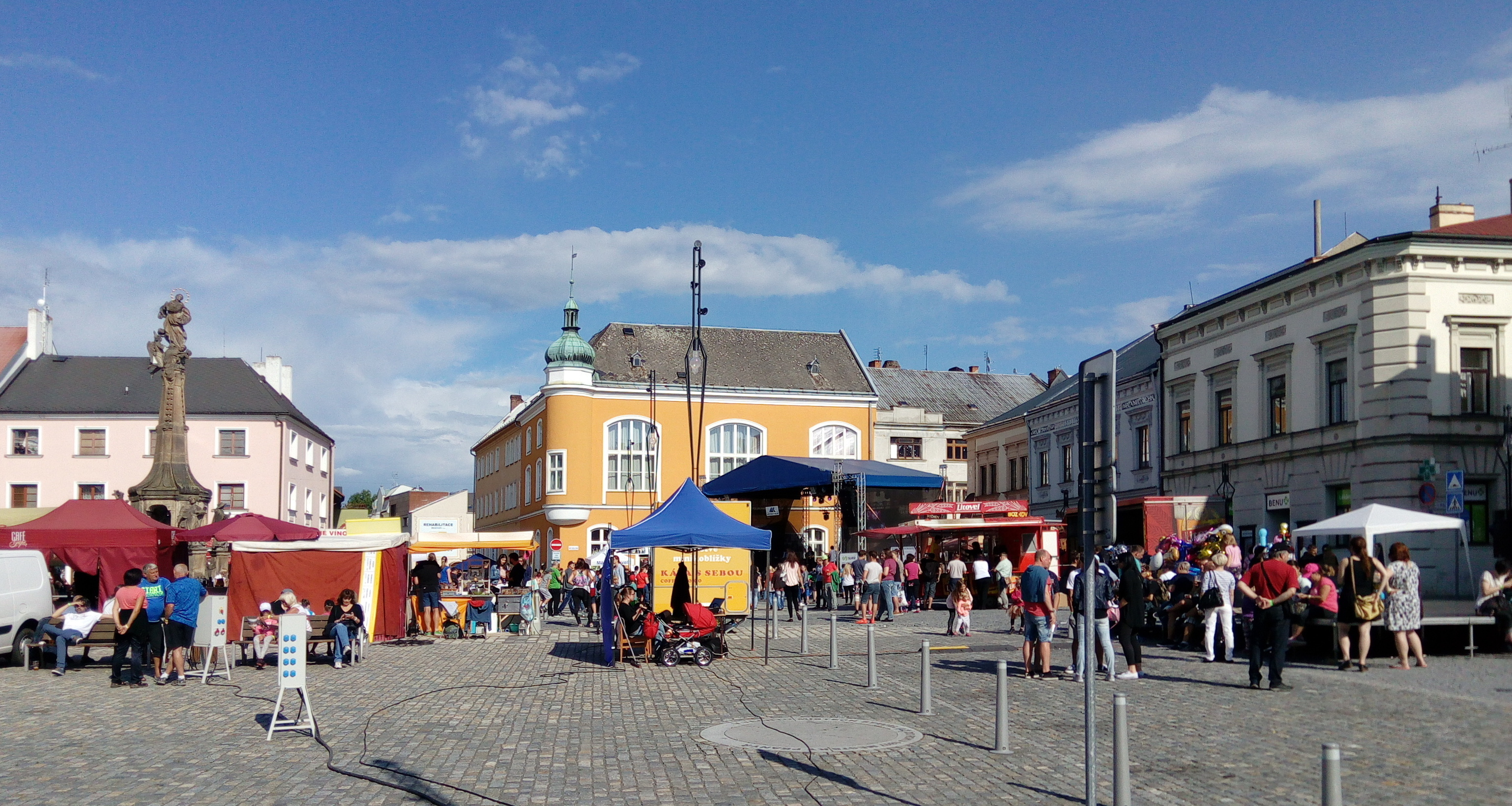 Přemysl Otakar Square in the town of Litovel, Olomouc District, Olomouc Region, Czech Republic, during the local festival of Hanácké Benátky 2017.